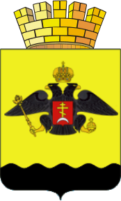 Novorossiysk (Krasnodar kray), coat of arms (2006)